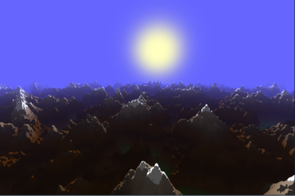 Terrain rendered in real-time on the GPU using the Manbil framework.